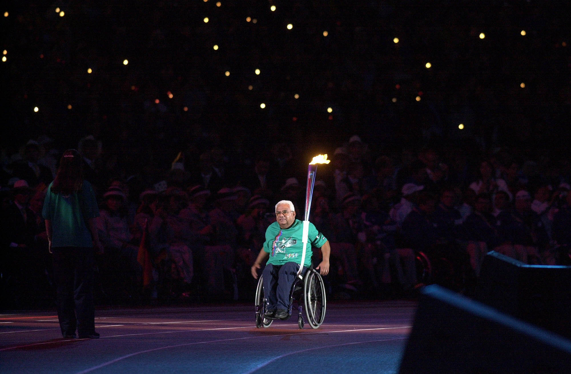 Australian wheelchair basketballer and athletics competitor Kevin Coombs during the torch relay at the Sydney Paralympic Games Opening Ceremony